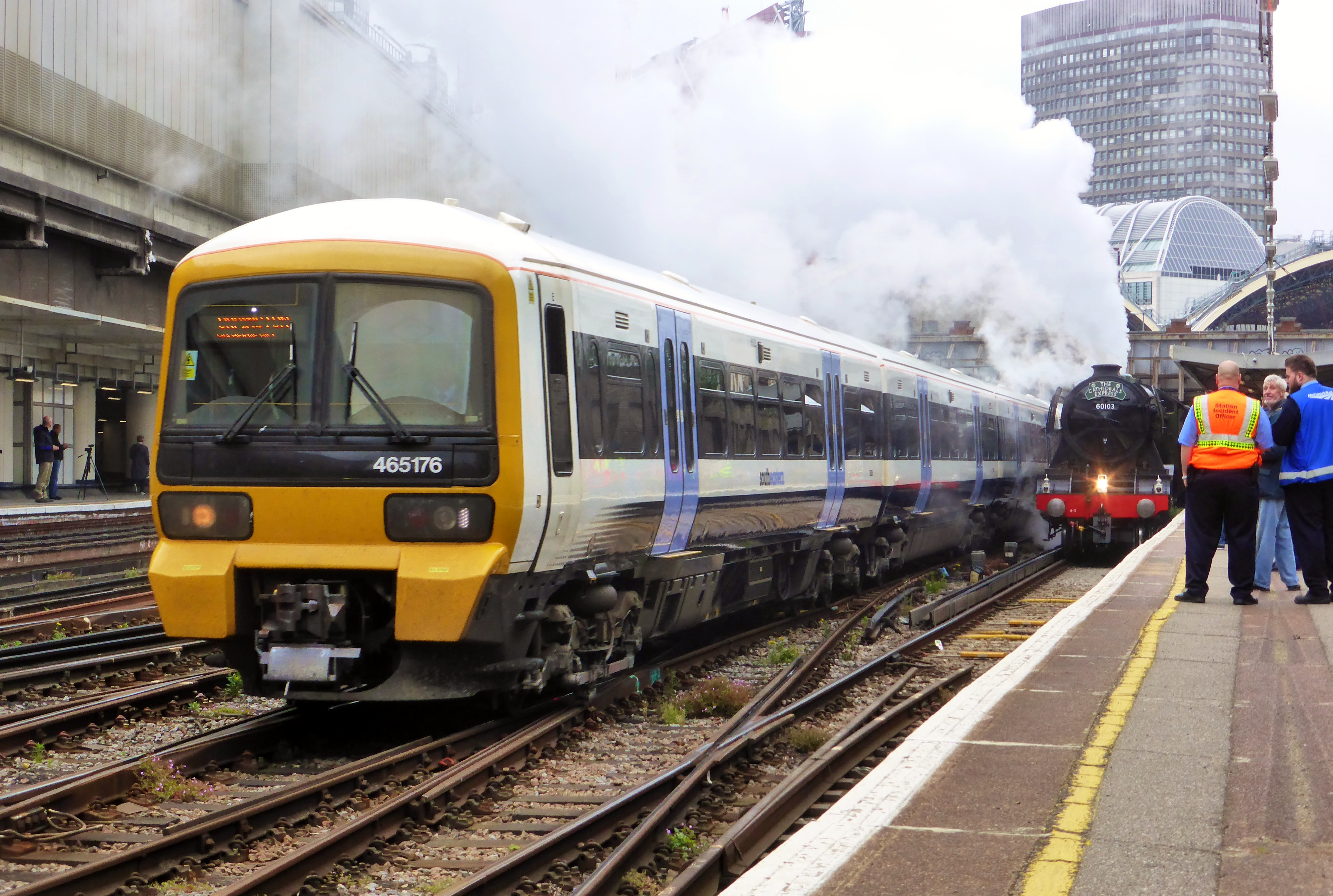 465174 leaving London Victoria